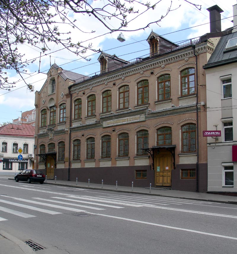 Musical School in Nikoloyamskaya Street, Moscow